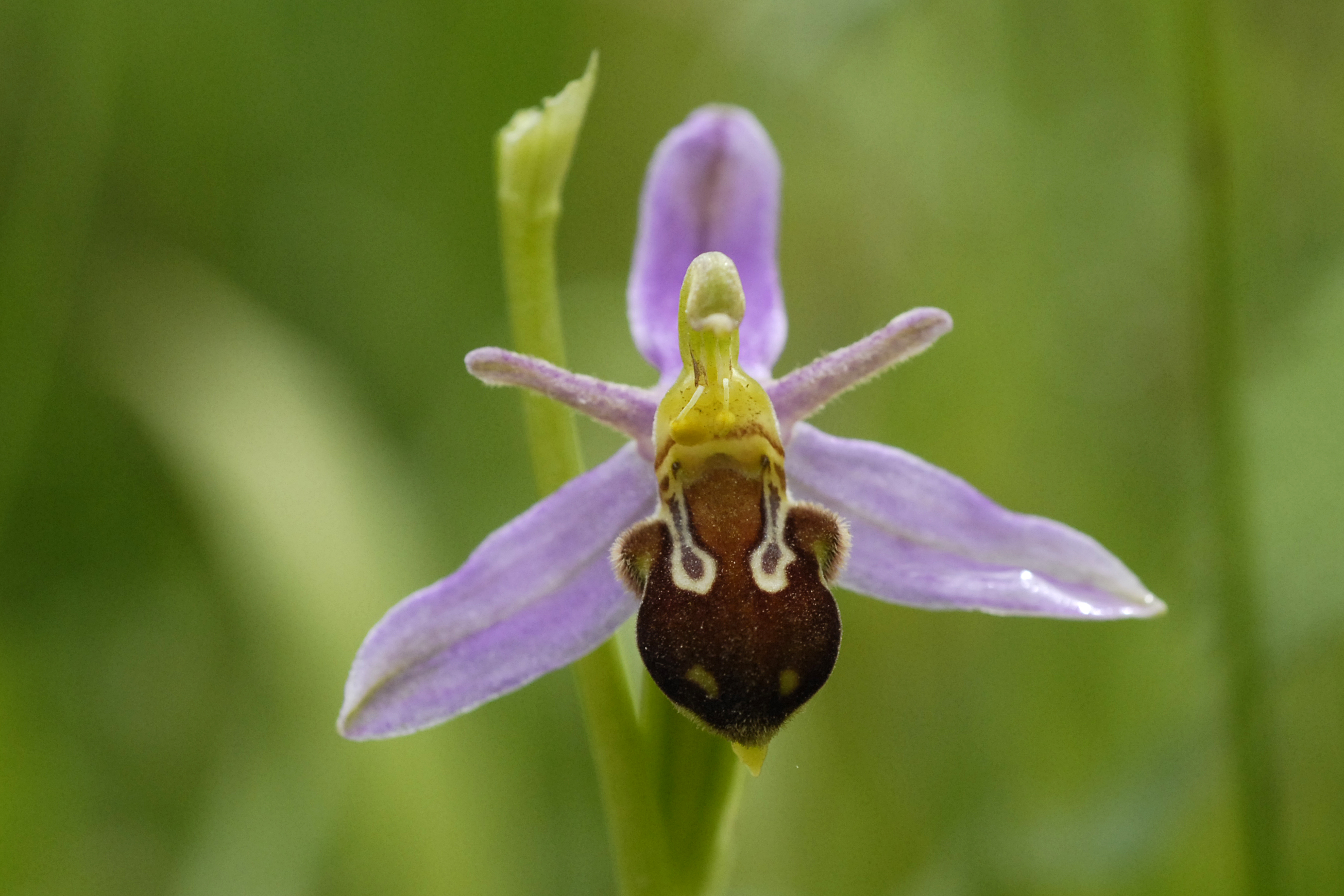 Bee Orchid at College Lake